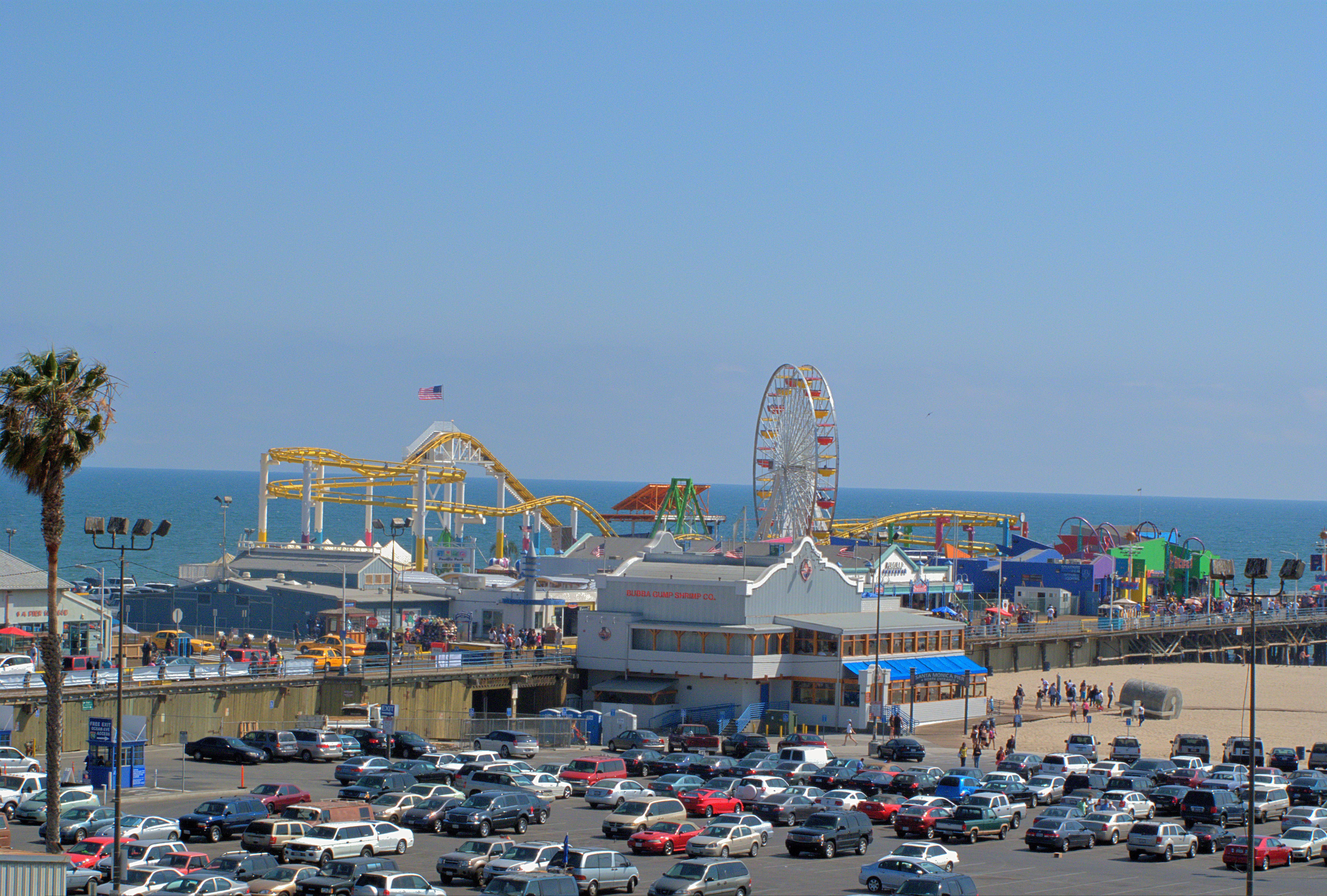 Pacific Park on Santa Monica Pier, Santa Monica, California. Two images from a RAW base image combined in HDR.